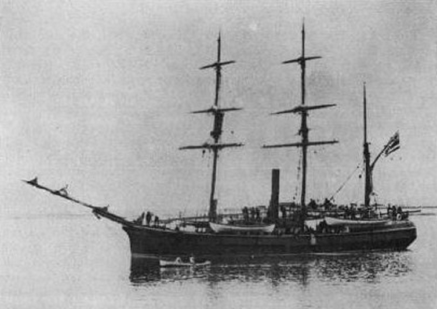 Photograph of HHMS Kaimiloa anchored at Honolulu Harbor.